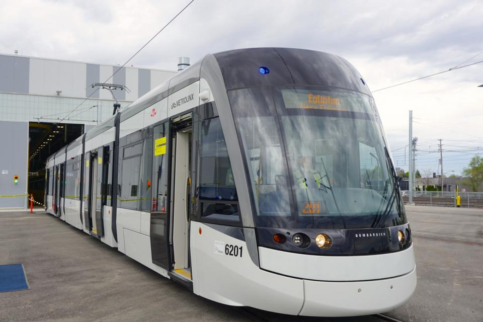 A front view of the Flexity vehicle at the Eglinton EMSF at Doors Open 2019